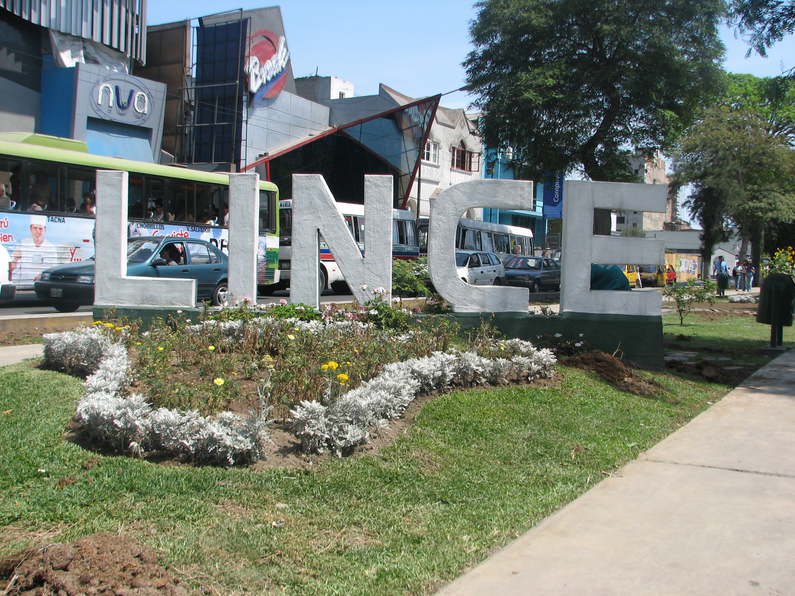 District sign Lince district at Av. Arequipa in Lince/Lima, Peru.